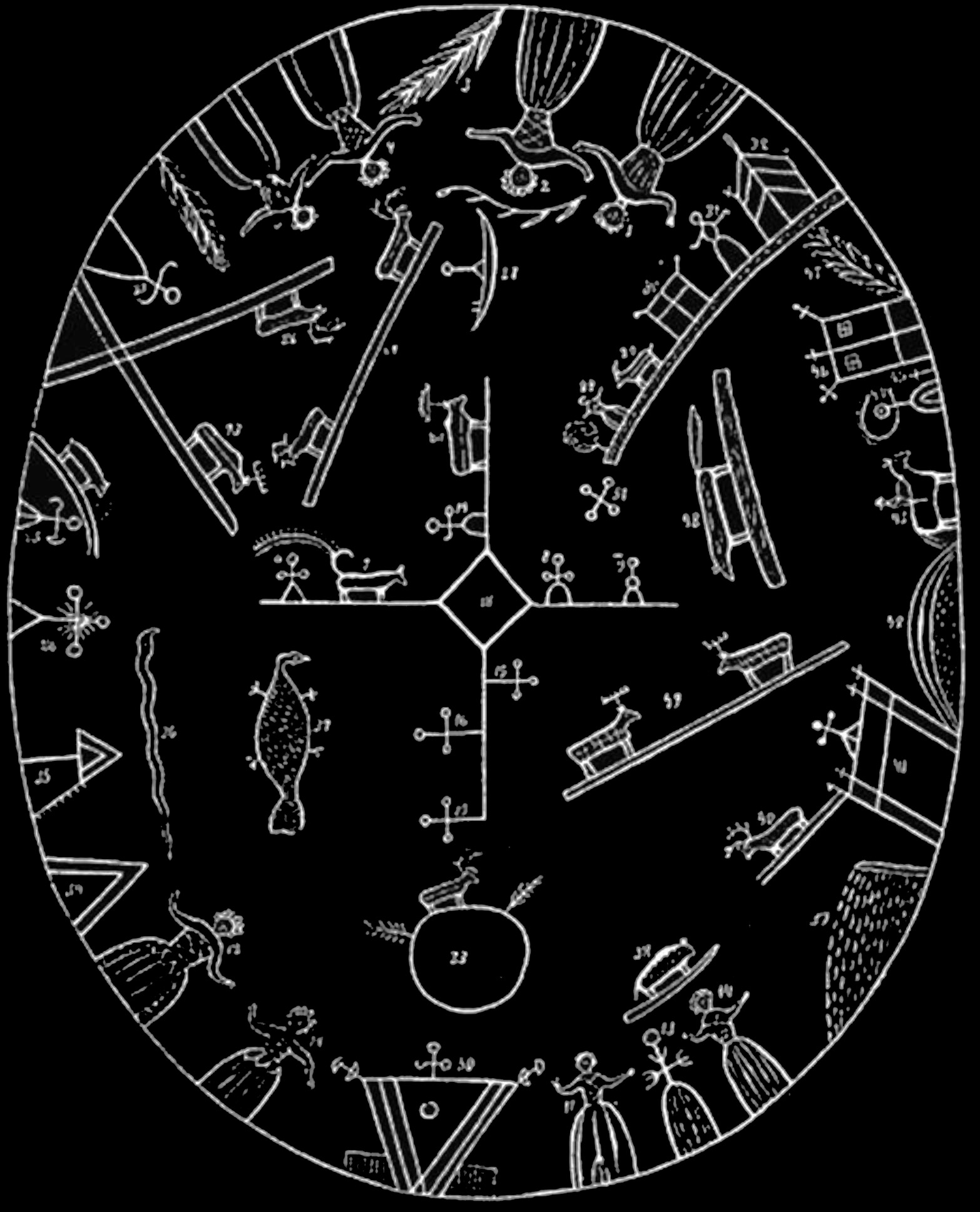 Sami drum of undefined origin. Described and depicted by Jens Andreas Friis in his book Lappisk mythologi, eventyr og folkesagn (1871); later also discussed in Sigurd Agrell's Lapptrummor och runmagi (1934). Now lost, according to in Ernst Manker's Die lappische Zaubertrommel (1938; p 63).